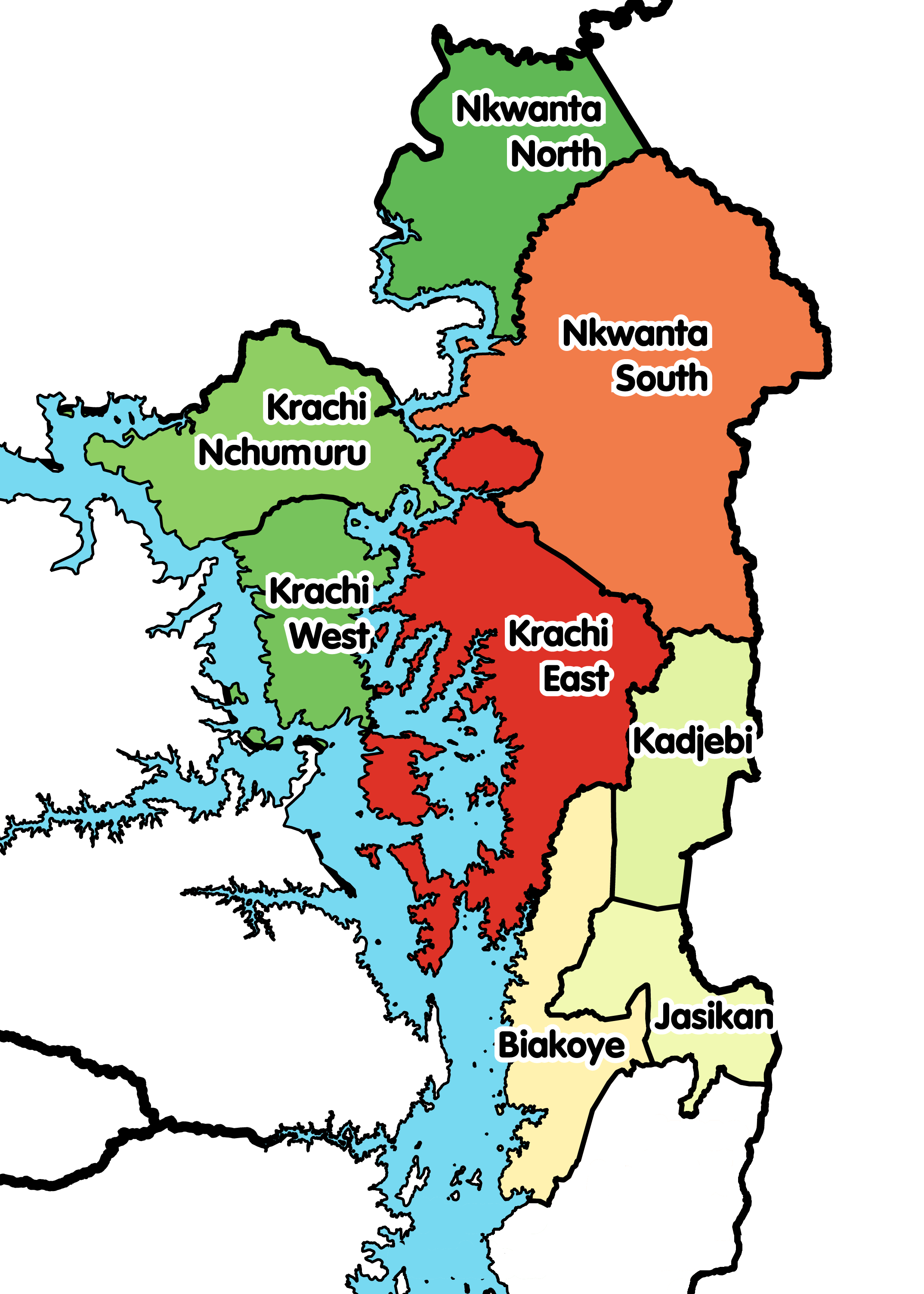 Political Map of Ghana's Oti Region and its eight districts